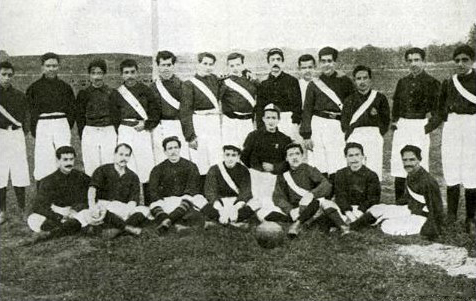 Origins of Real Madrid Club de Fútbol-Sky Football Club. XIX Century